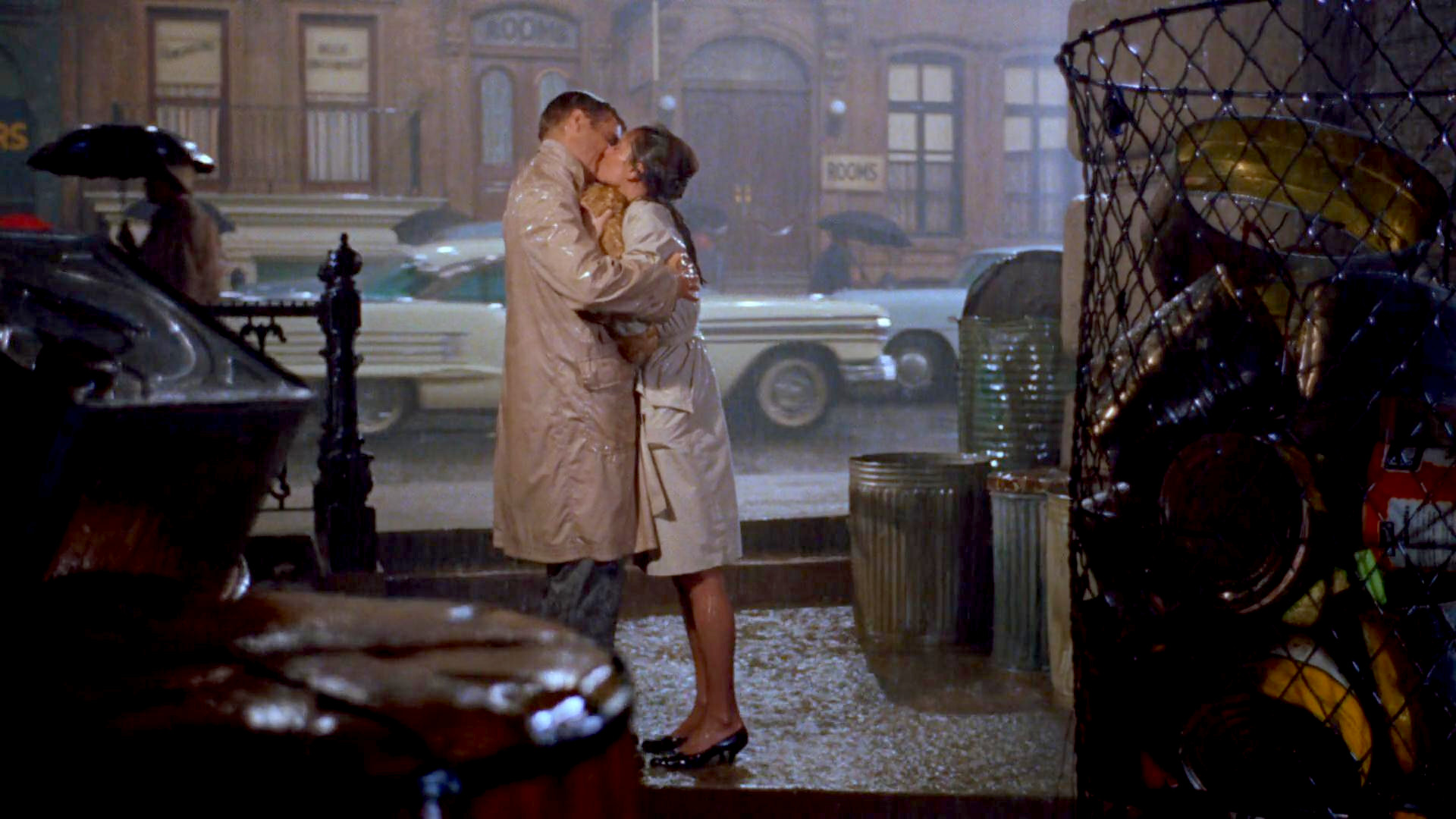 Kiss between Audrey Hepburn and George Peppard at Breakfast at Tiffany's.